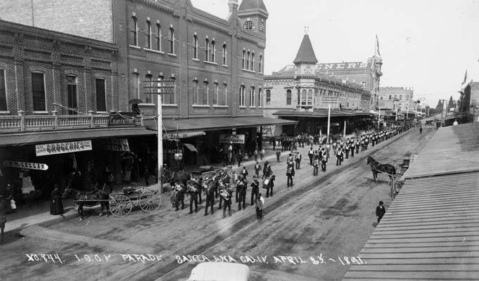 Downtown Santa Ana, in 1891.